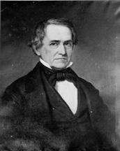 Portrait of Robert Strange (1796 - 1854)